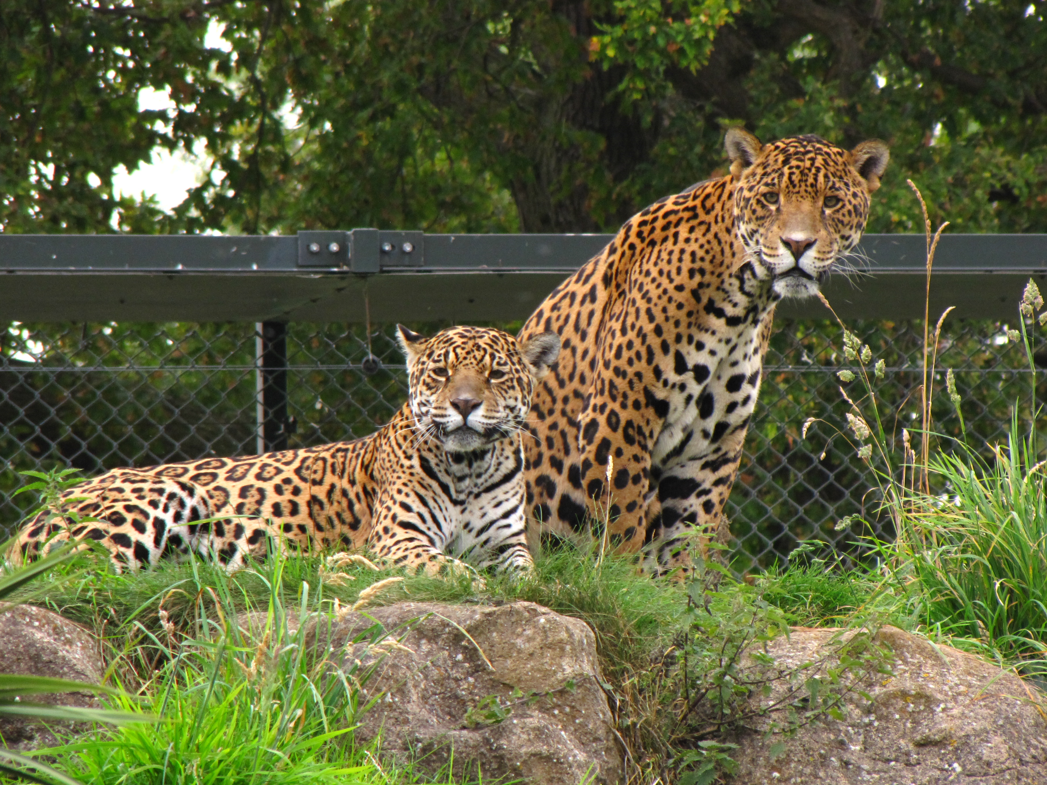 Jaguars Panthera onca at Chester Zoo, Cheshire, England.